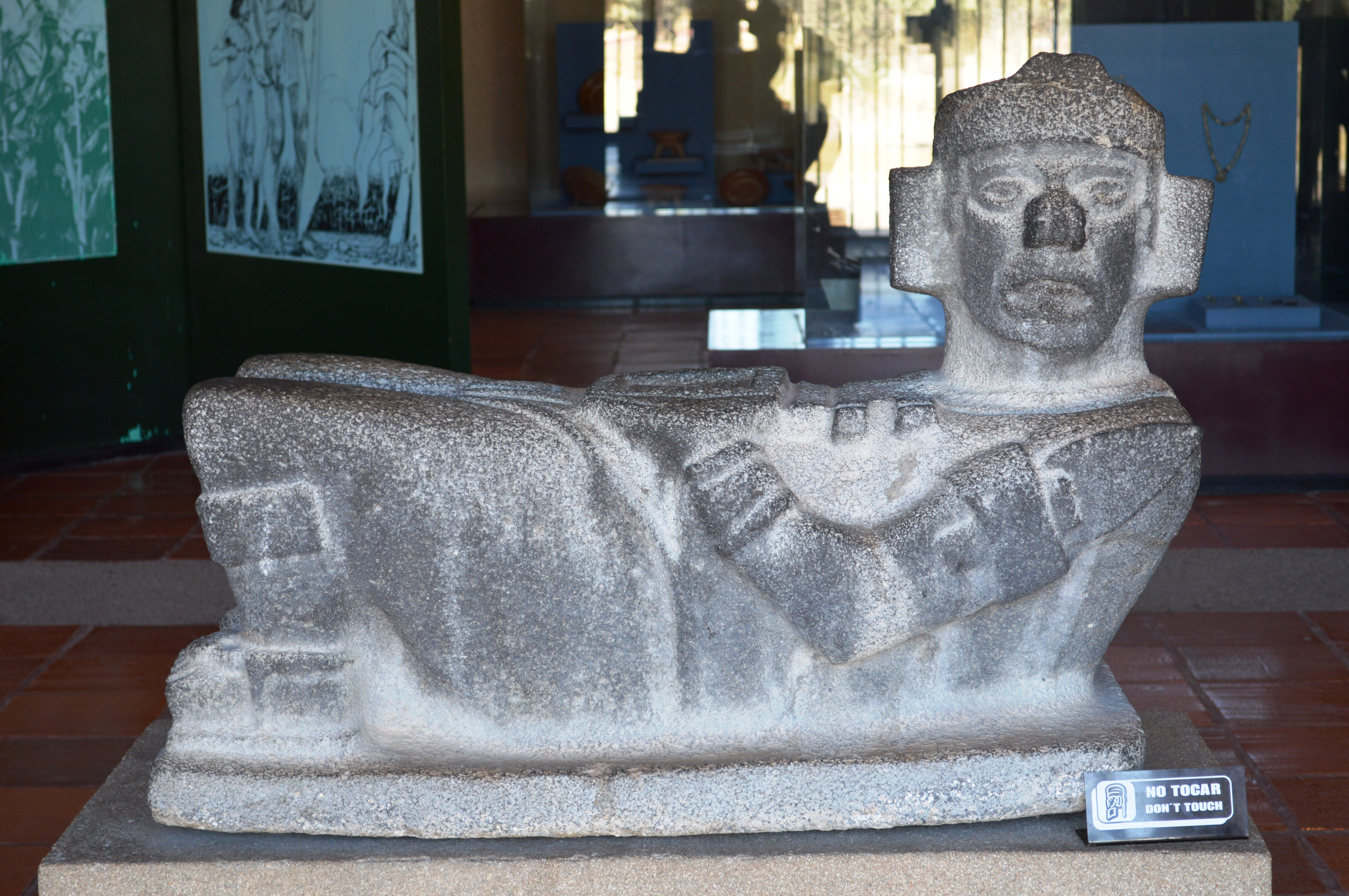 Chac Mool inside the Jorge R. Acosta museum at the Tula archeological site, Mexico